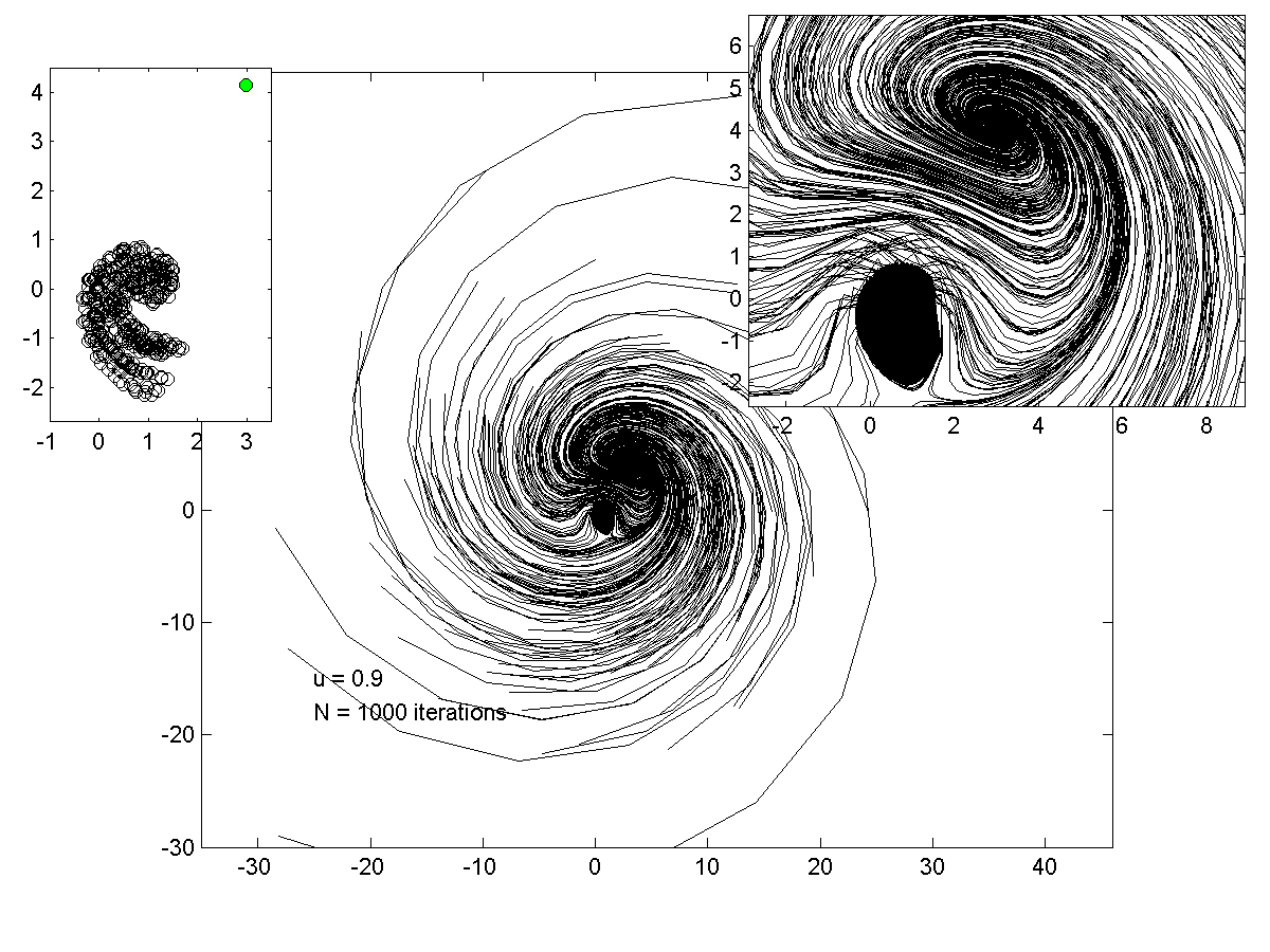 Ikeda trajectory plot made using MATLAB